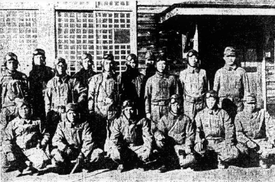 Group photo of vanda Corps